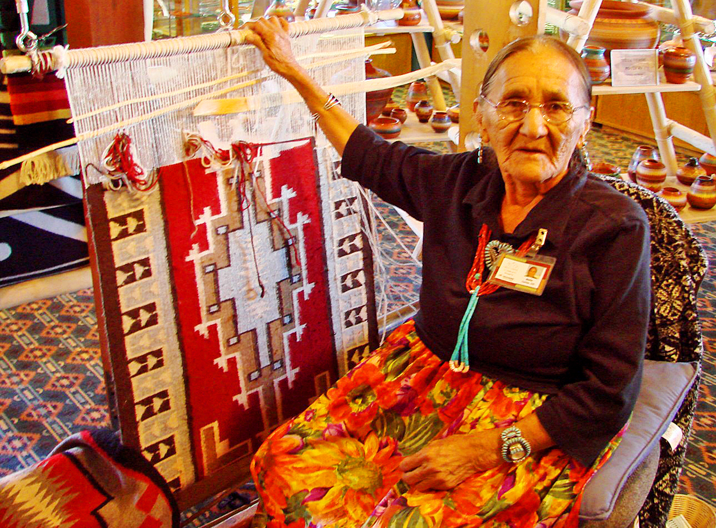 (1 in a multiple picture album) This lady, perhaps one of the last who know the art, was weaving a blanket in the art store in Mesa Verde National Park. I asked her if I might take her picture. In a very soft voice she said, 'Yes, if you pay me.' I did. I think she is an iconic figure for a way of life nearly past. The picture was used in a grade school book called 'Chemical Tests' by the Smithonian Science Education Center. (ISBN 978-1-933008-41-7 [Page 46]. These books are used for kindergarten through 6th Grade in the United State. I was quite proud that they asked me for permission.